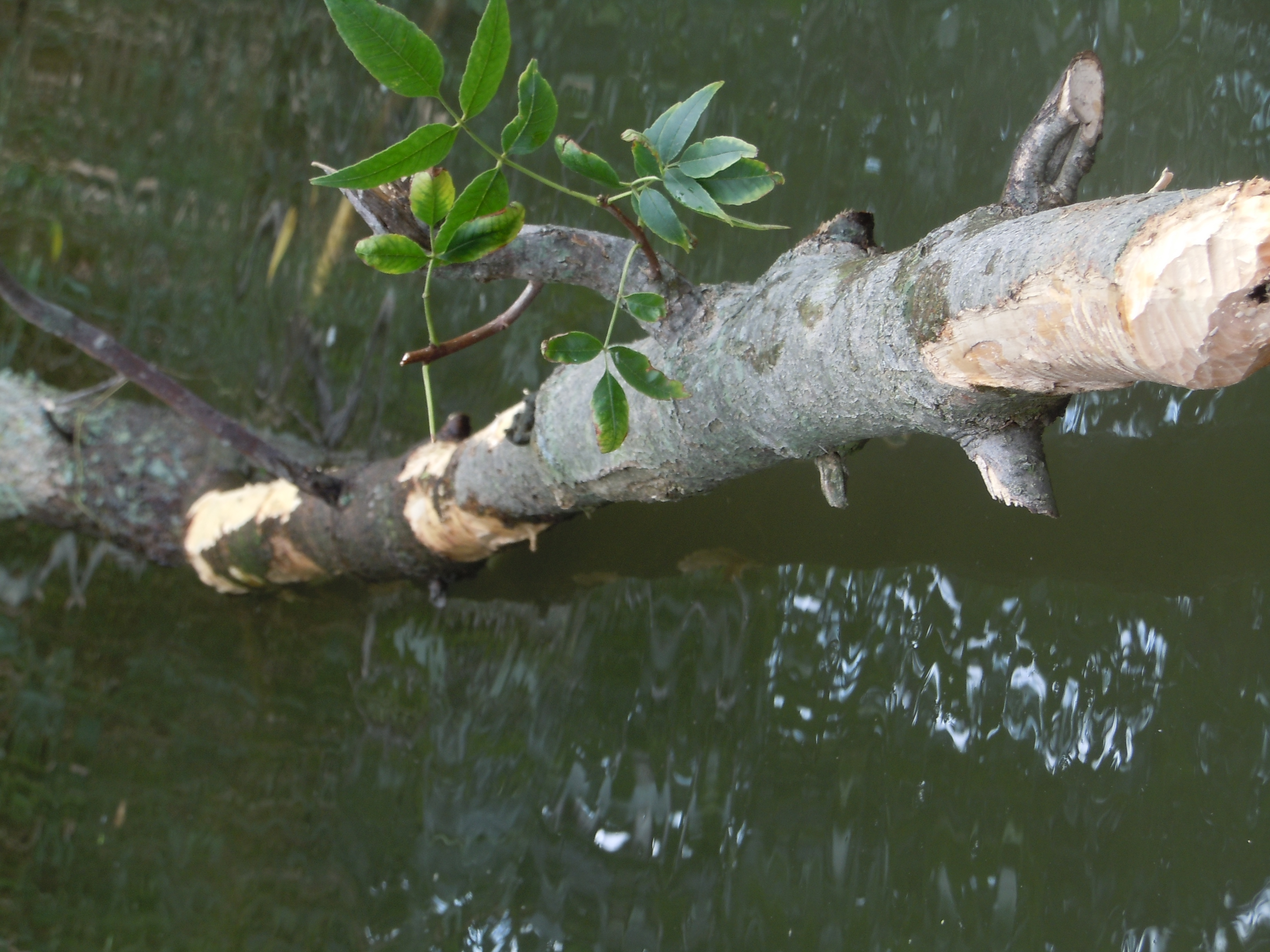 Green ash (Fraxinus pennsylvanica) felled and gnawed by beaver on the Galien River just below kayak livery put in upstream from Red Arrow Highway bridge.